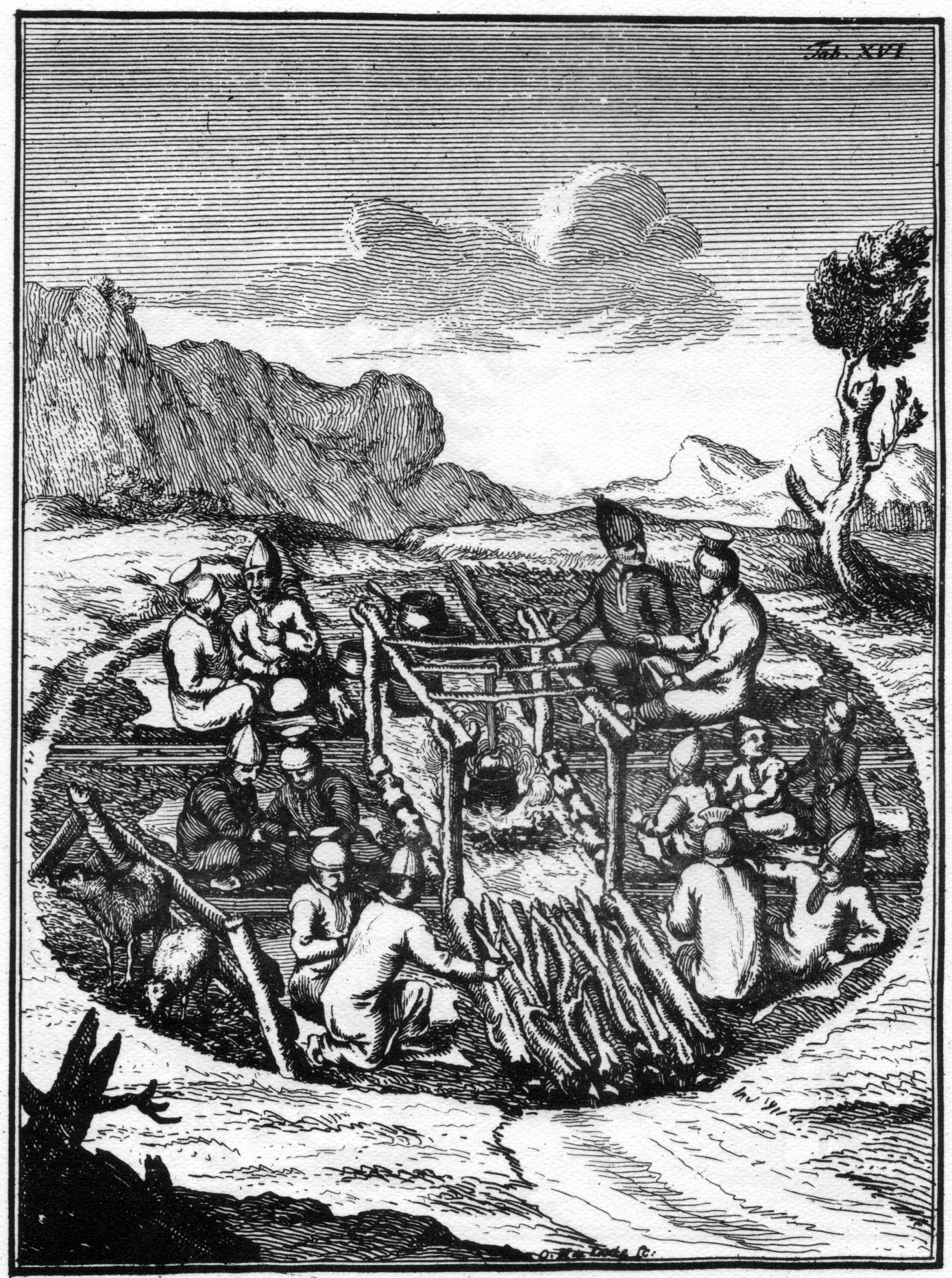 The interior of a Norwegian Coastal Sami hut according to Knud Leem. The hut is divided into nine sections with different functions.